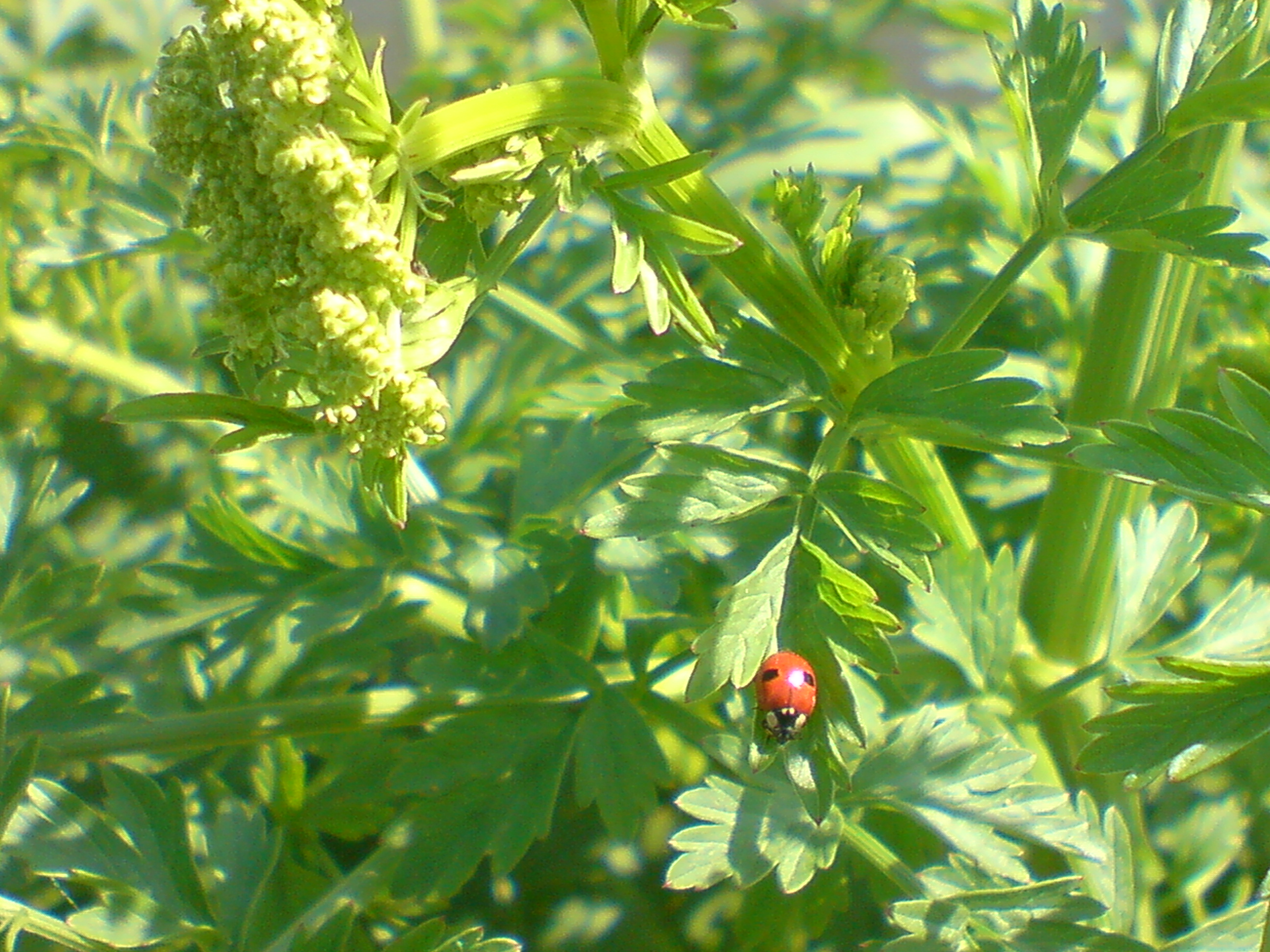 Two-spotted ladybug (Adalia bipunctata) in Richmond Park, London, England.